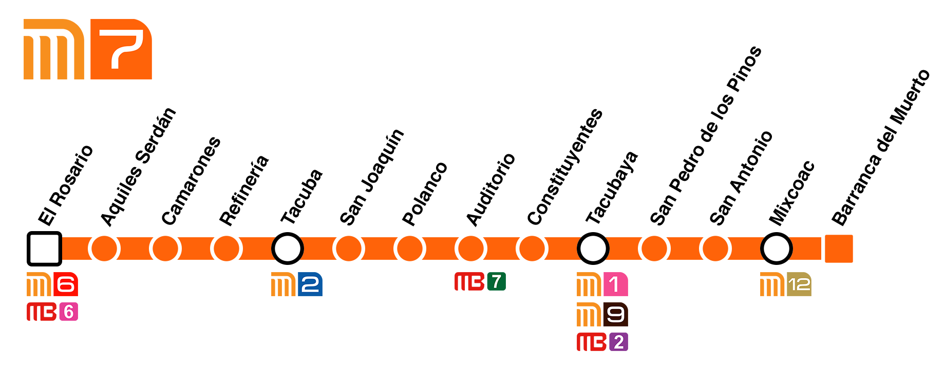 Mexico City Metro Line 7 plan, 2018